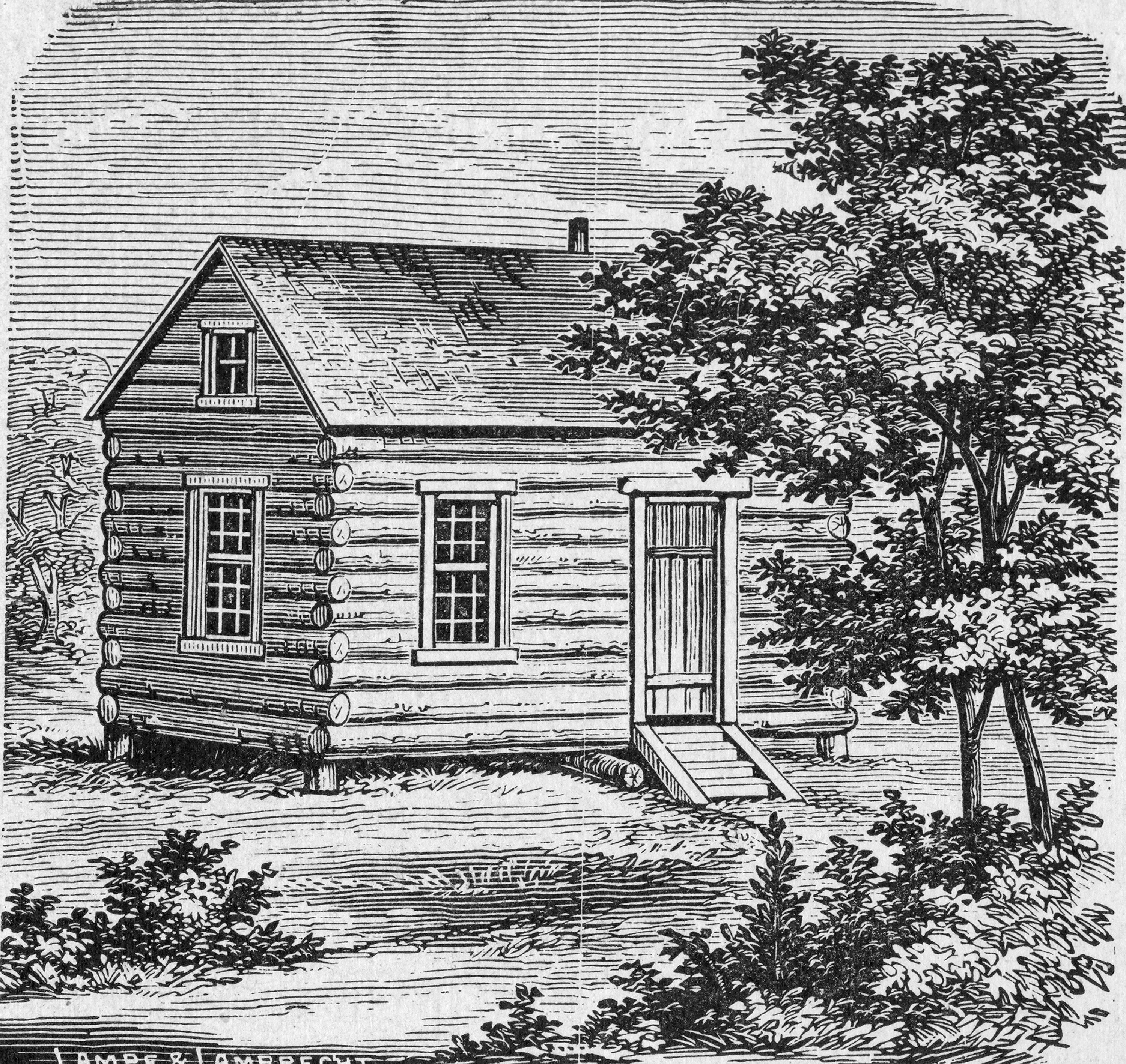 Concordia Seminary Perry County Missouri 1839 Cabin woodcut.